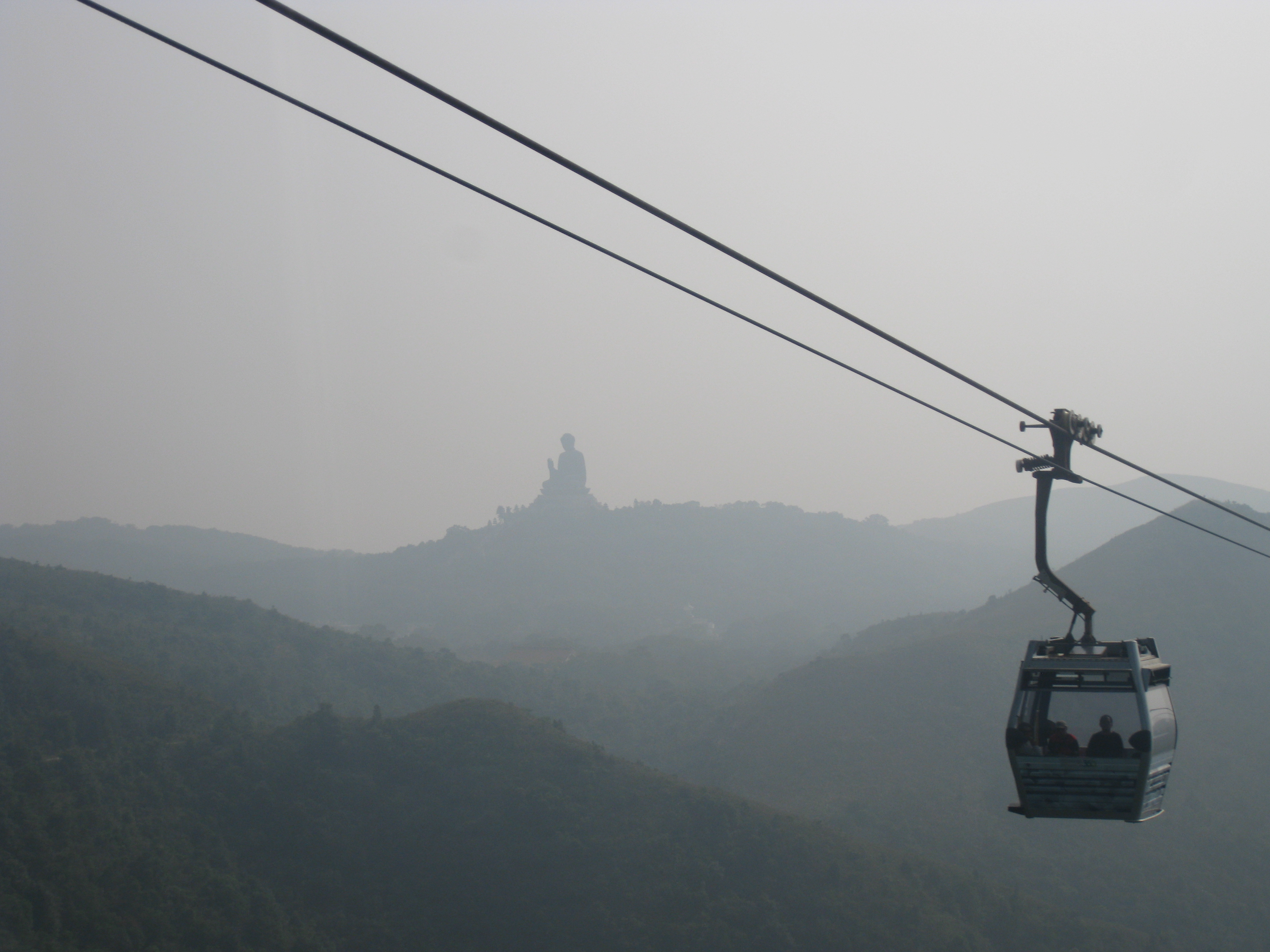 Hong Kong - Ngong Ping 360 Cable Car